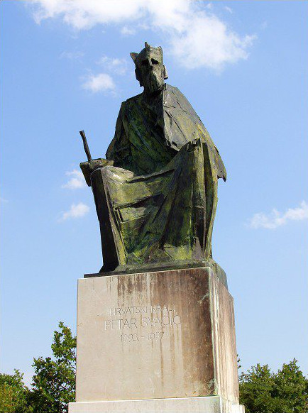 Monument in a tribute of Petar Svačić,King of Croatia